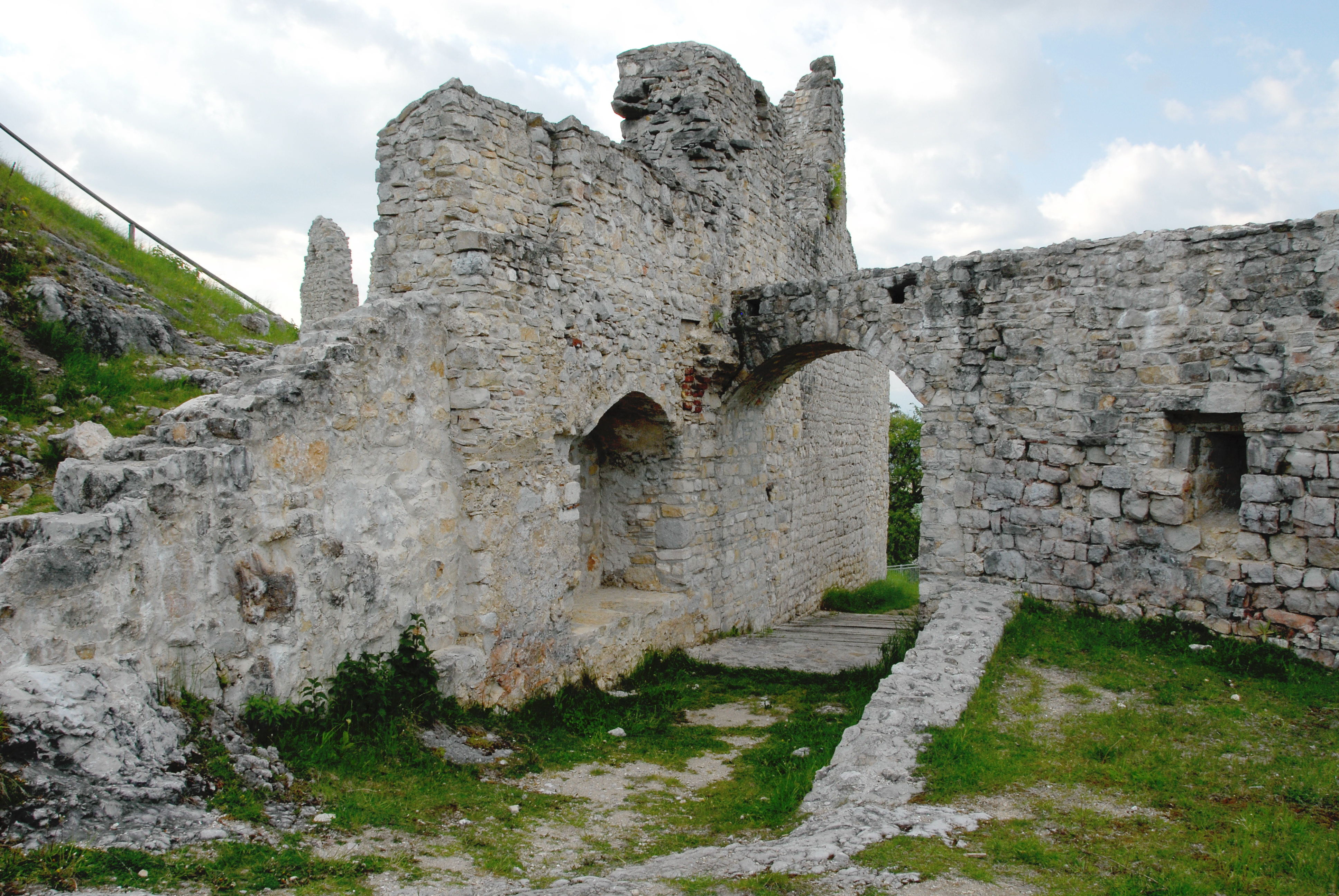 Castle ruin Rabenstein, municipality Sankt Paul im Lavanttal, district Wolfsberg, Carinthia / Austria / EU